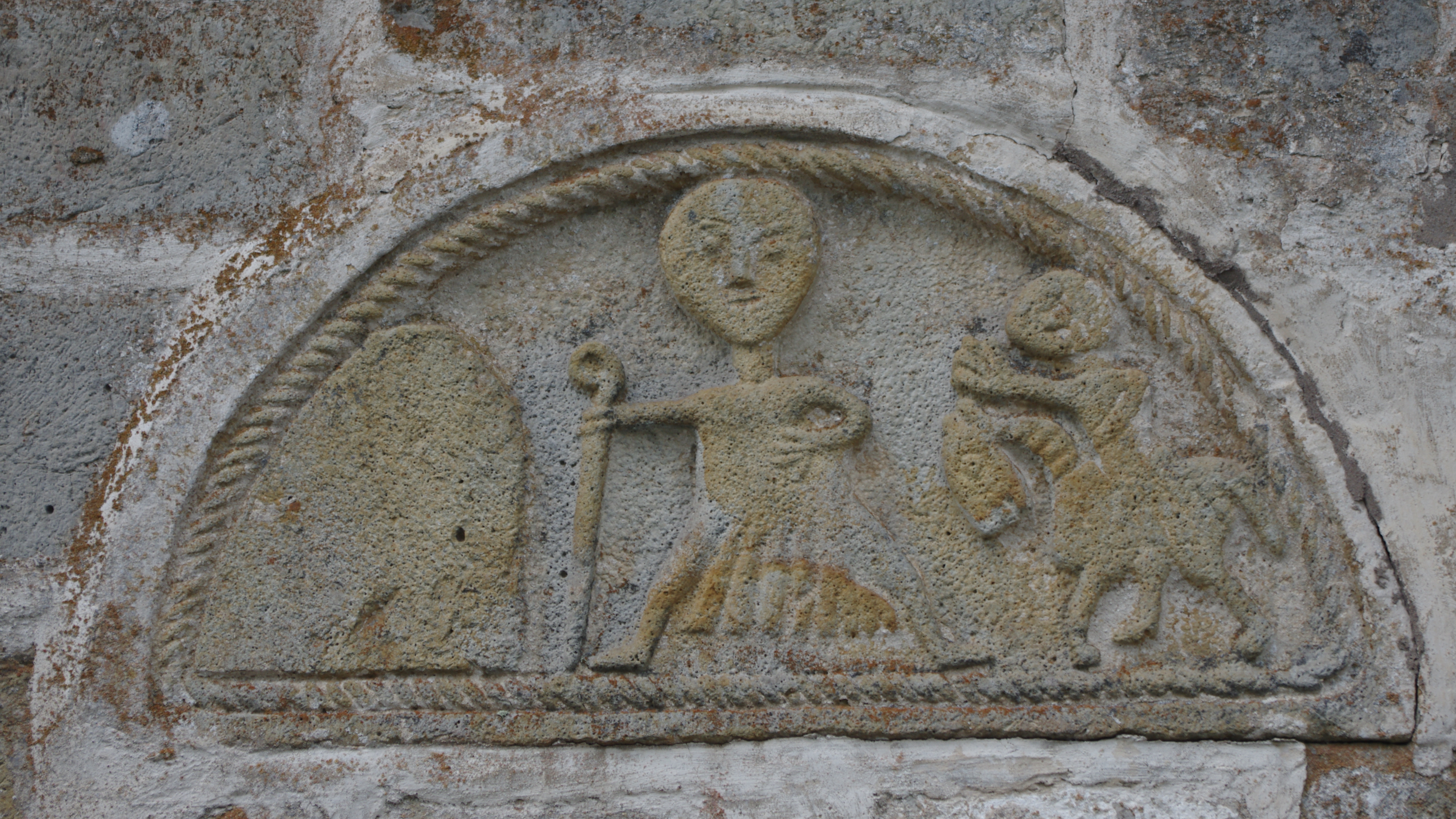 Velinga church in Västergötland, Sweden.